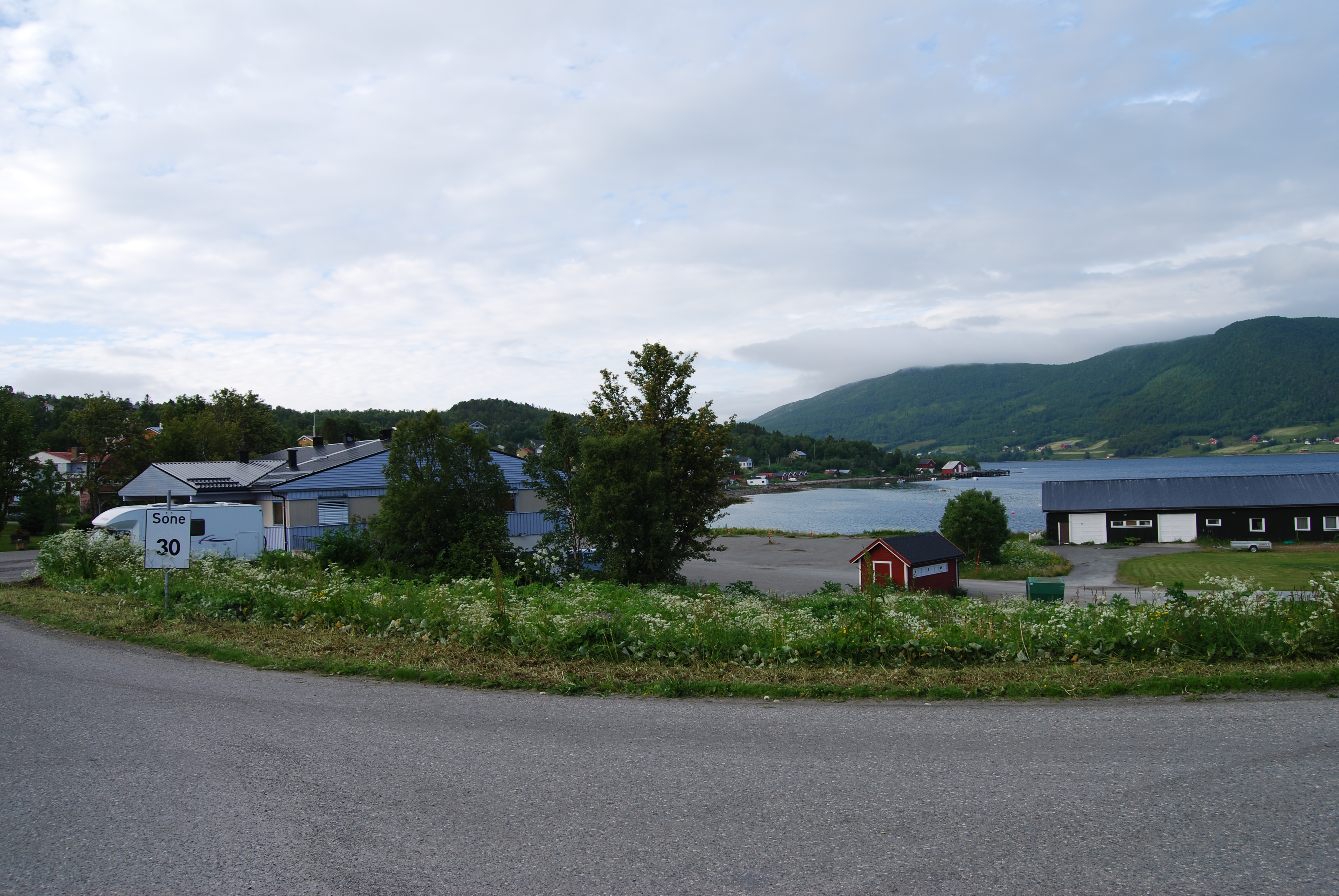 Gibostad village on Senja, Norway.